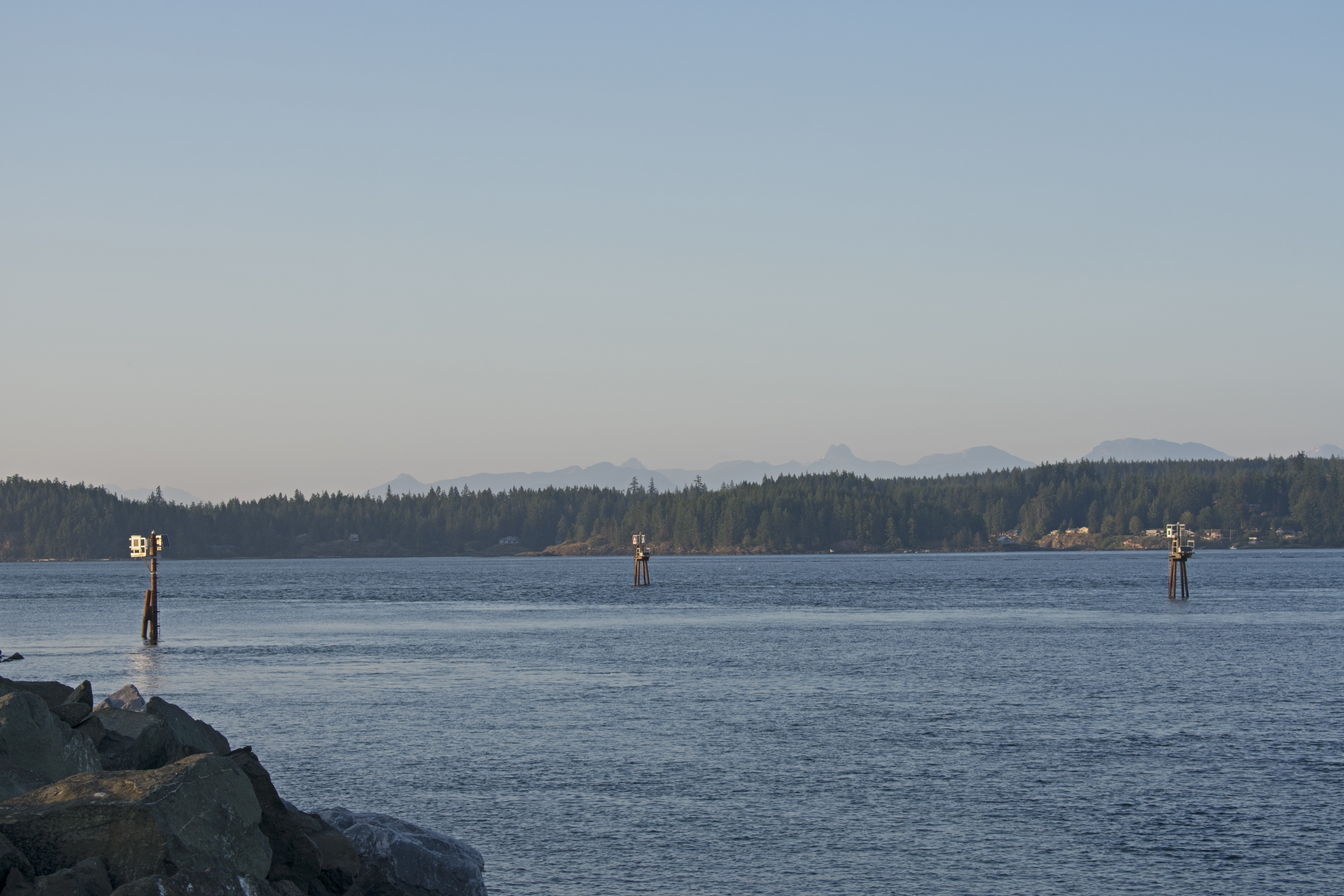 Discovery Passage from Campbell River. Quadra Island is at the background.